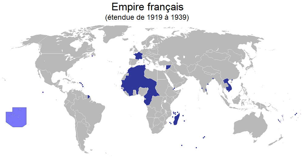 L'empire colonial français de 1919 à 1939.